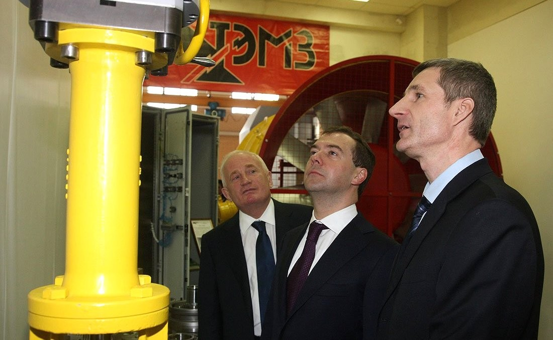 Dmitry Medvedev at Tomsk Electromechanical Plant